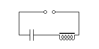 own work, using Bild:Schaltsymbole.png